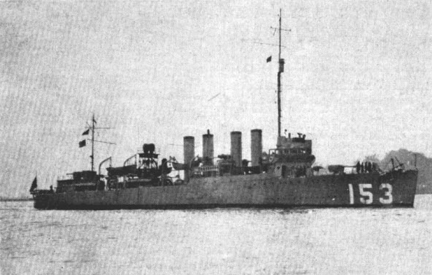 The U.S. Navy destroyer USS Bernadou (DD-153) in November 1921. Bernadou escorted the protected cruiser USS Olympia (C-6) from Cape Hatteras to Washington D.C. On 3 October 1921, Olympia had departed Philadelphia, Pennsylvania (USA), for Le Havre, France, to bring the remains of the Unknown Soldier home for interment in Arlington National Cemetery. The cruiser departed France on 25 October 1921; she was escorted by a group of French destroyers for part of the voyage. At the mouth of the Potomac river on 9 November, the battleship USS North Dakota (BB-29) and the Bernadou joined Olympia as she sailed to the Washington Navy Yard. After transferring the remains ashore, the cruiser fired her guns in salute. Note that Bernadou´s flag is at half-mast.